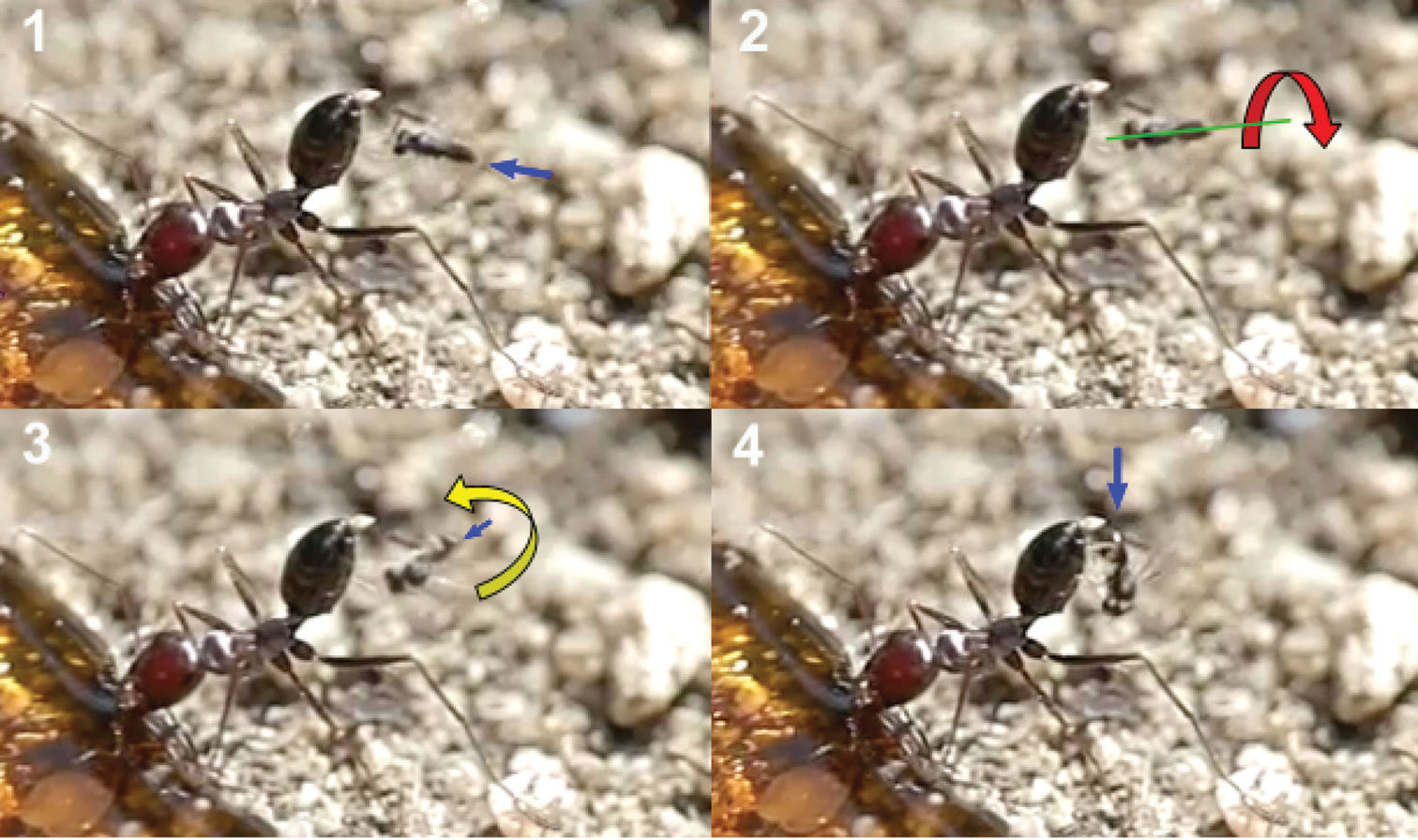 1 female of Kollasmosoma sentum (blue arrow) grasps the ant’s metasoma with its fore tarsi; 2 starts a 180° rotation around its longitudinal axis; 3 at the same time initiates a second rotation, moving vertically towards the ant’s metasoma; 4 alights downwards on the ant’s metasoma.